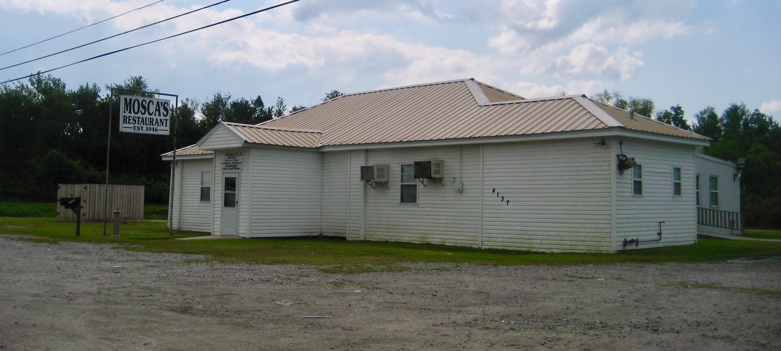 Mosca's Restaurant, just off Highway 90 between Avondale and Boutte Louisiana.